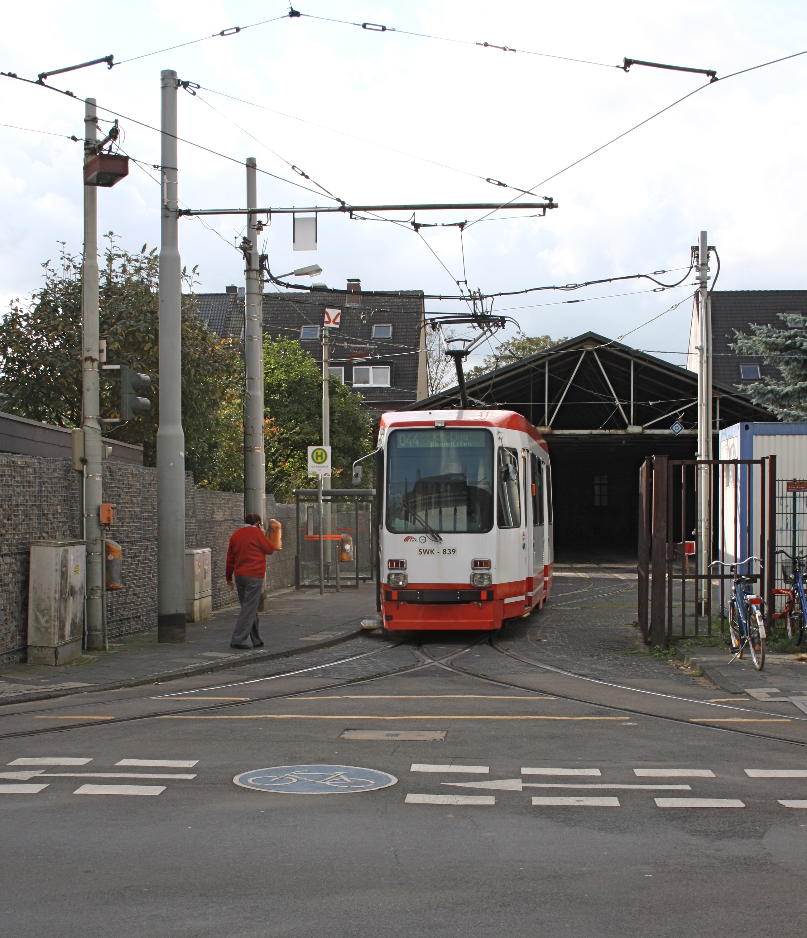 Tramway terminus Krefeld-Hüls